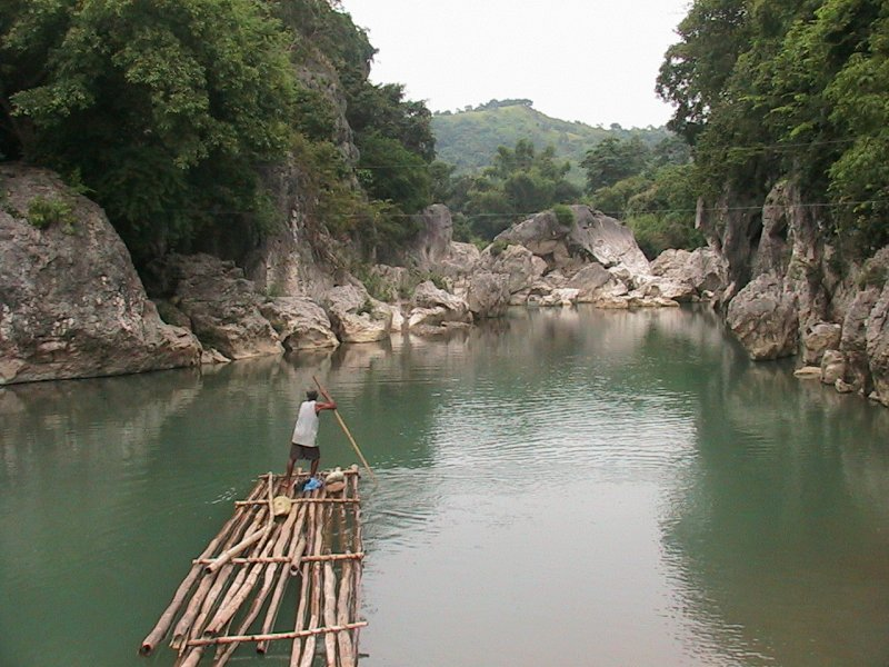 Madlum, San Miguel, Bulacan Hanging Bridge and Sitio Madlum River in Barangay Sibul Springs, beside Biak-na-Bato, San Miguel, Bulacan; Madlum 15° 10.212N 121° 04.973E ; Bulacan State U officials dismissed due to the August 19, 2014 drowning of 7 students; the Madlum Cave to reach Mount Manalmon huge white boulders, beside Mount Gola farther left, is Mount Arayat in Pampanga; Bridge Load Limit, 10 persons, Presidential Proclamation No. 401, April 11, 1989, Madlum Caves, Bayukbok I Cave and Bayukbok II Cave parts of the Biak-na-Bato National Park, Republic of Biak-na-Bato protected areas IUCN category V (protected landscape/seascape), Breast-shaped hill Mount Susong Dalaga and Tilandong Falls are also popular attractions inside the 658.8497 hectares Park under the jurisdiction and located in Doña Remedios Trinidad, Bulacan and San Miguel, Bulacan along the Sibul Springs-BiaknaBato, San Miguel, Bulacan Farm to Market Road interconnecting with and from the Salangan-Santa Rita Bata-Santa Rita Matanda-San Juan-Tibagan-Pulong Bayabas-Pacalag, San Miguel-Buhol na Mangga, San Ildefonso, Bulacan National Road (accessed along and from the Maharlika Highway (Cagayan Valley Road, San Miguel, Bulacan section) of the Pan-Philippine Highway, also known as the Maharlika "Nobility/freeman" Highway or Asian Highway 26, Cagayan Valley Road).